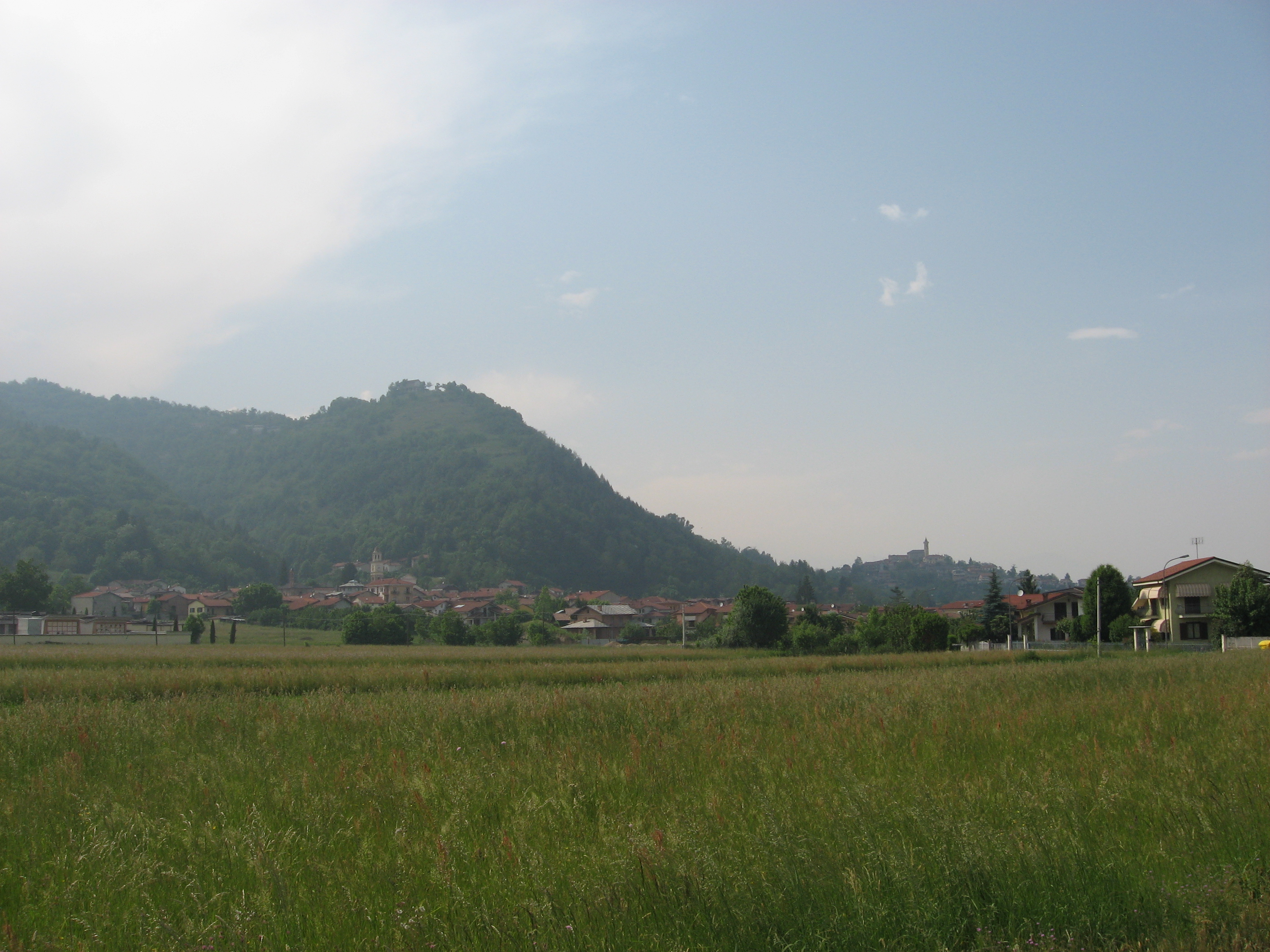 View of Vignolo (CN), Italy